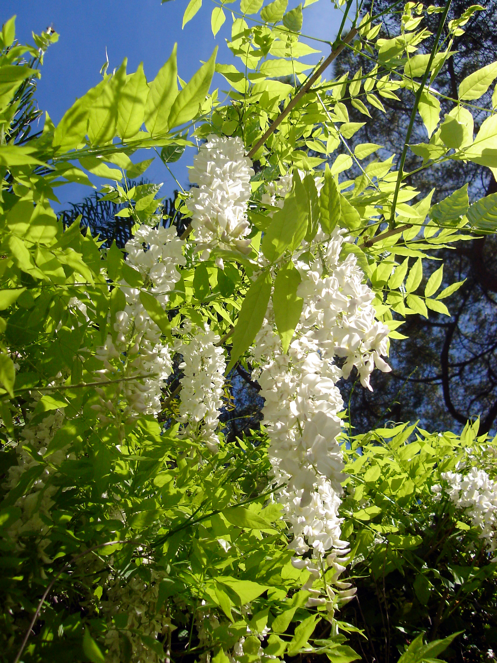 Wisteria sinensis (Chinese wisteria). Taken in The Alameda Gibraltar Botanic Gardens, Gibraltar